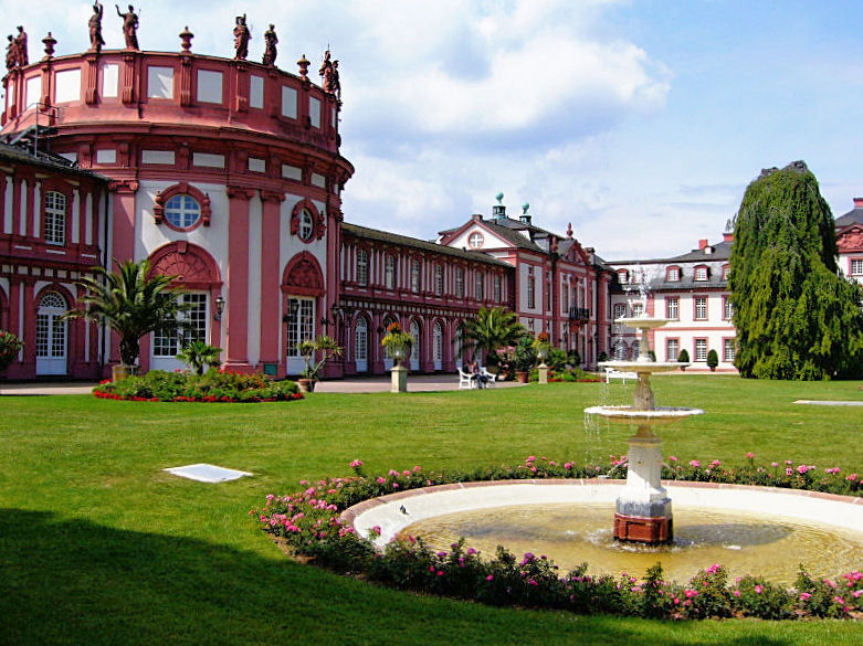 The Grand Ducal palace in Wiesbaden Biebrich, seen from the park behind it. Photographer: Laurenz Bobke, Wiesbaden